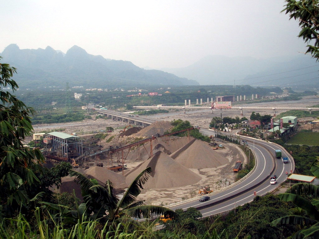 Taiwan Provincial No. 14 in Caotun Township,Nantou County,Taiwan.